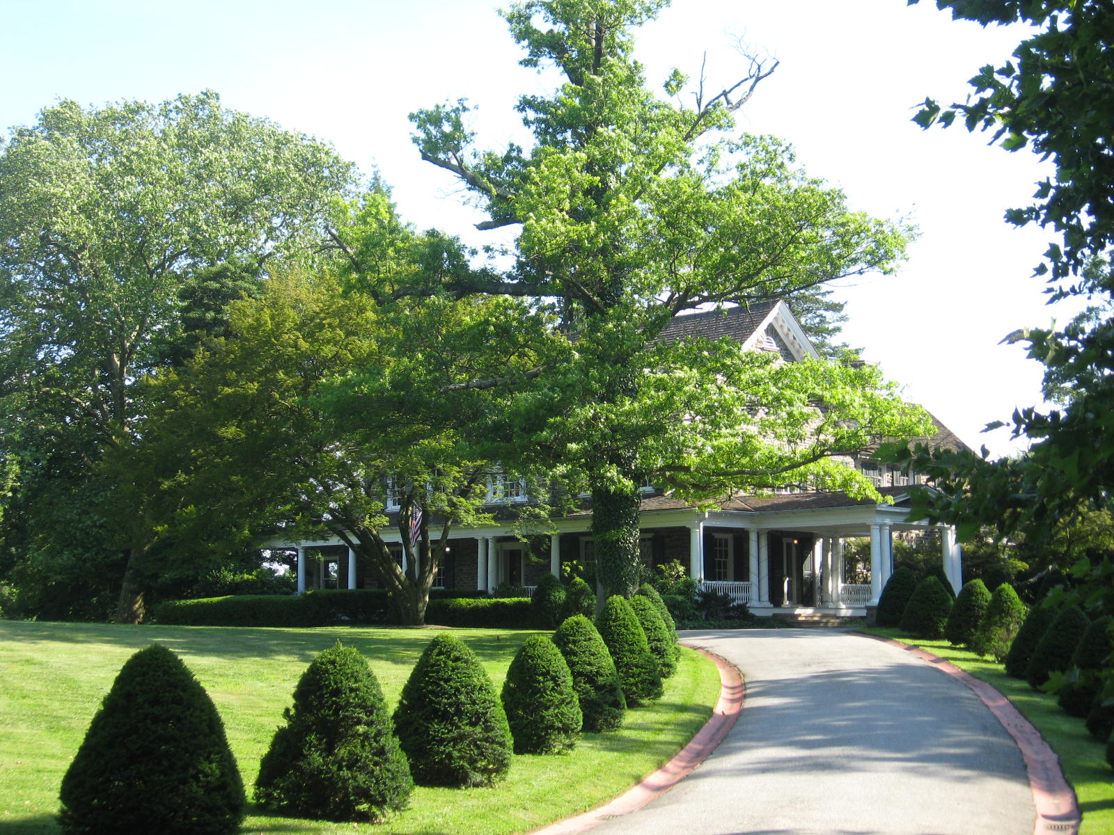 Milmoral